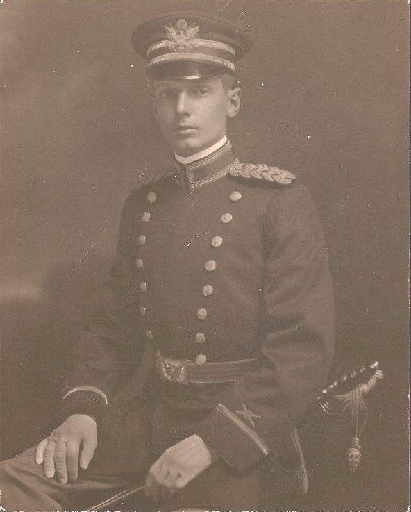 Image of Rudolph W. Riefkohl in 1910, pre-1923 before the implementation of copyright laws and therefore PD.